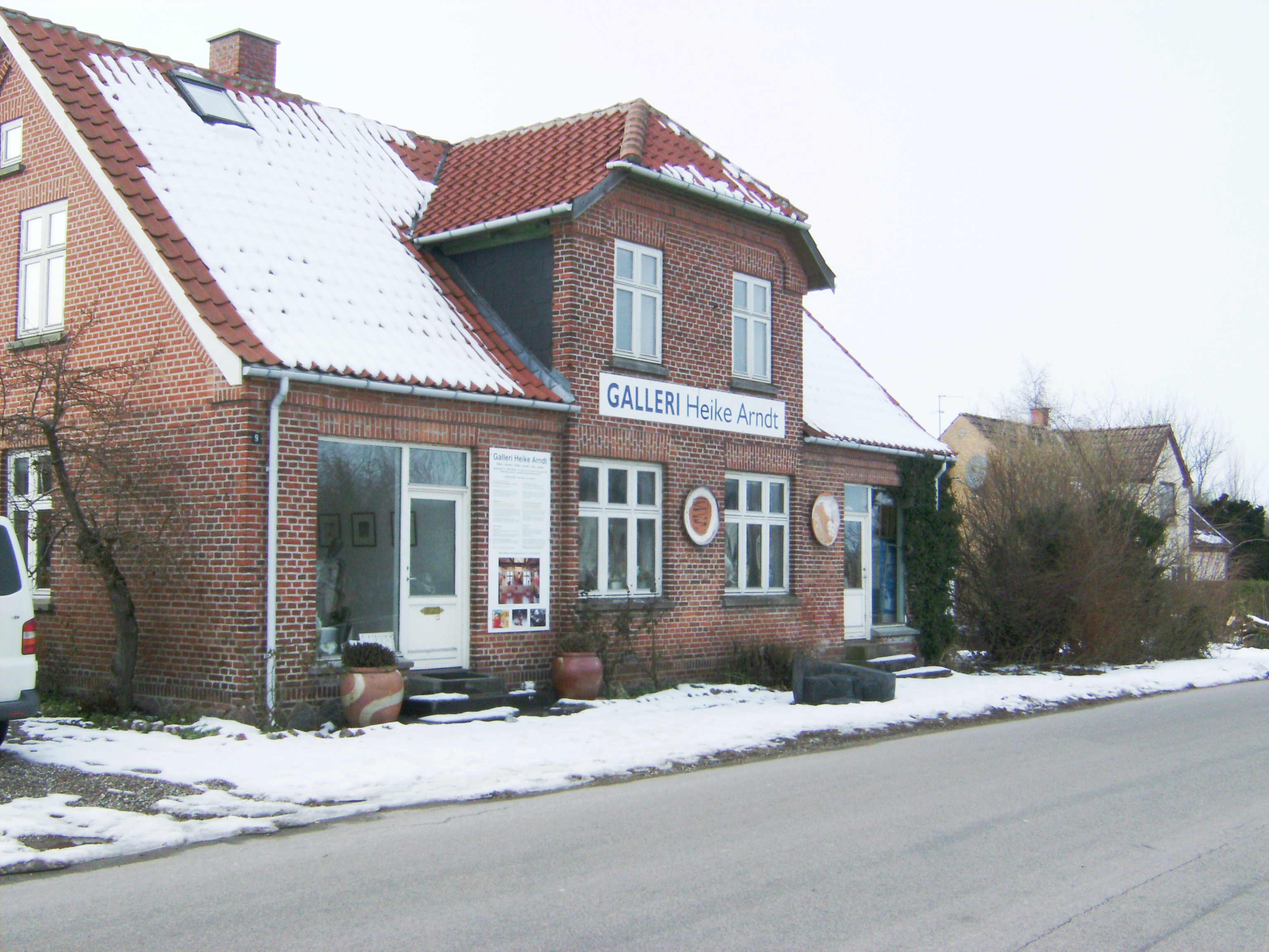 Art galley in Kettinge, Denmark